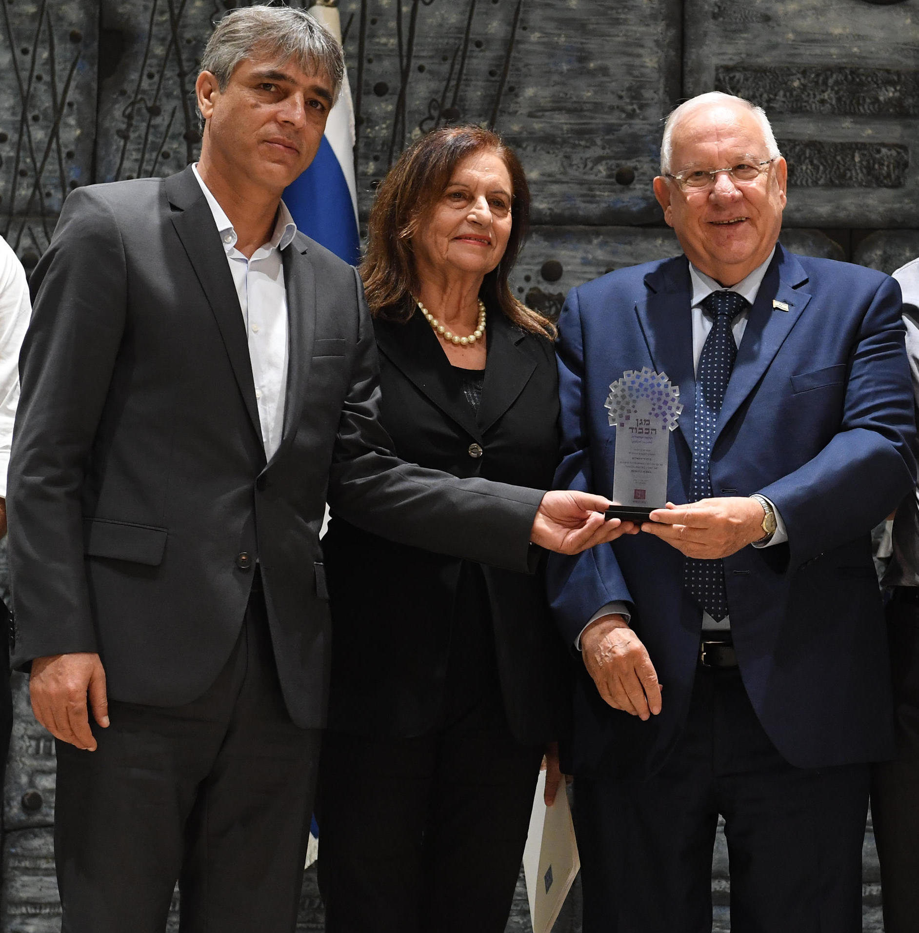 The ceremony of awarding the "Shield of Honor" for the 2016/17 season by President Reuven Rivlin. Monday, August 7, 2017. Photo Credit: Mark Neyman / GPO.